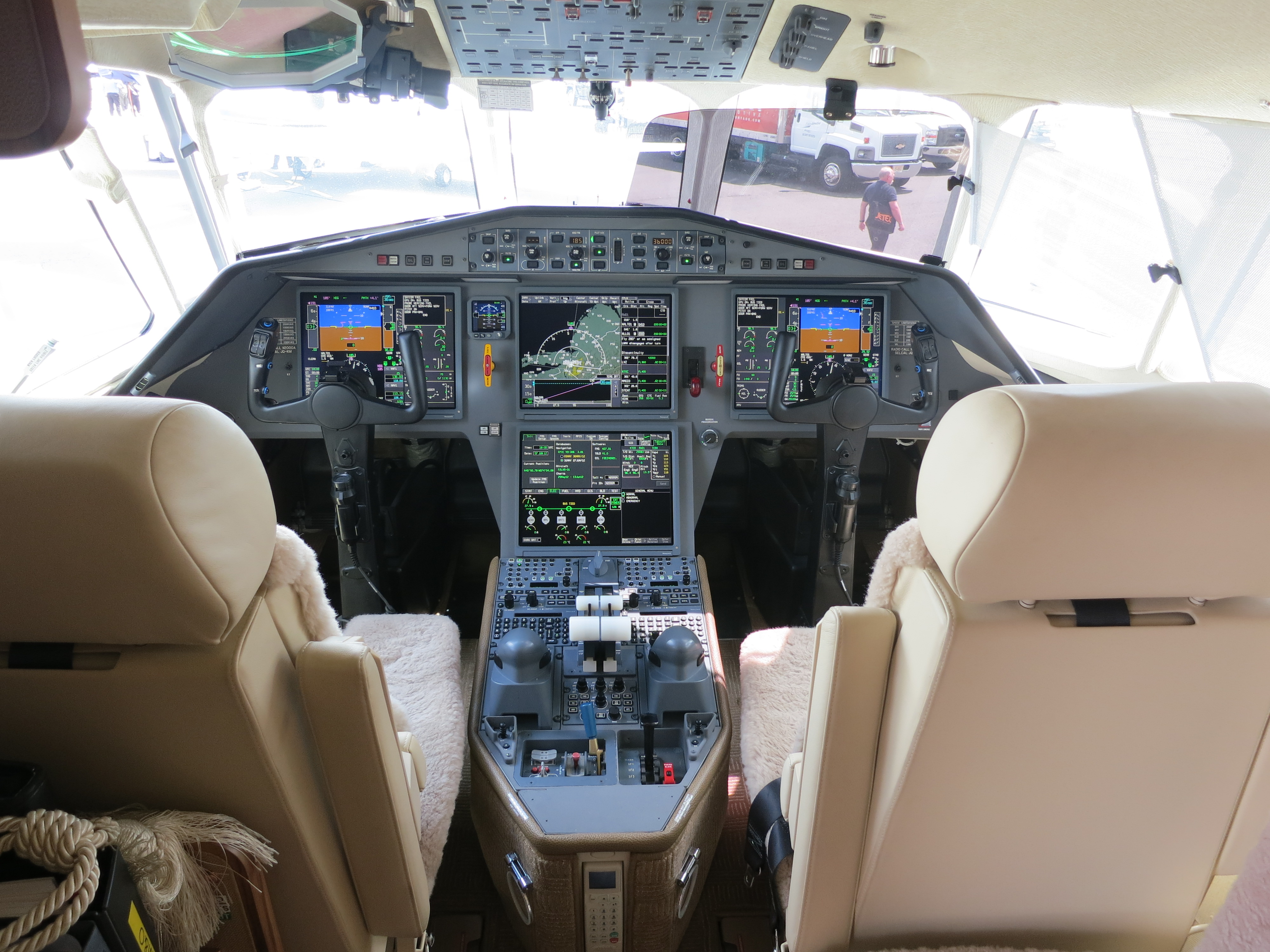 Dassault Falcon 2000 LX cockpit